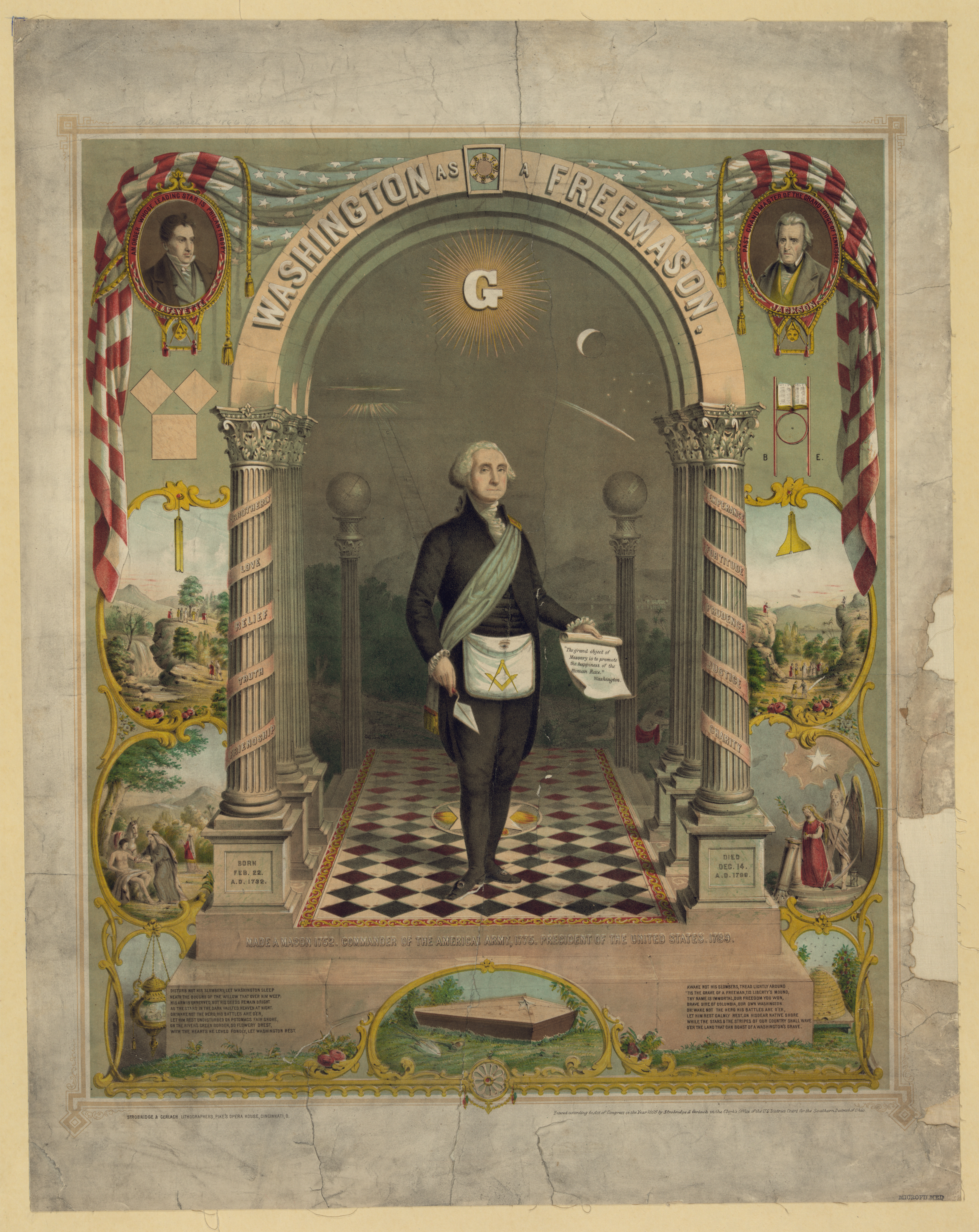 Washington as a freemason. A full-length portrait of George Washington, standing, facing slightly right, in masonic attire, holding scroll and trowel.